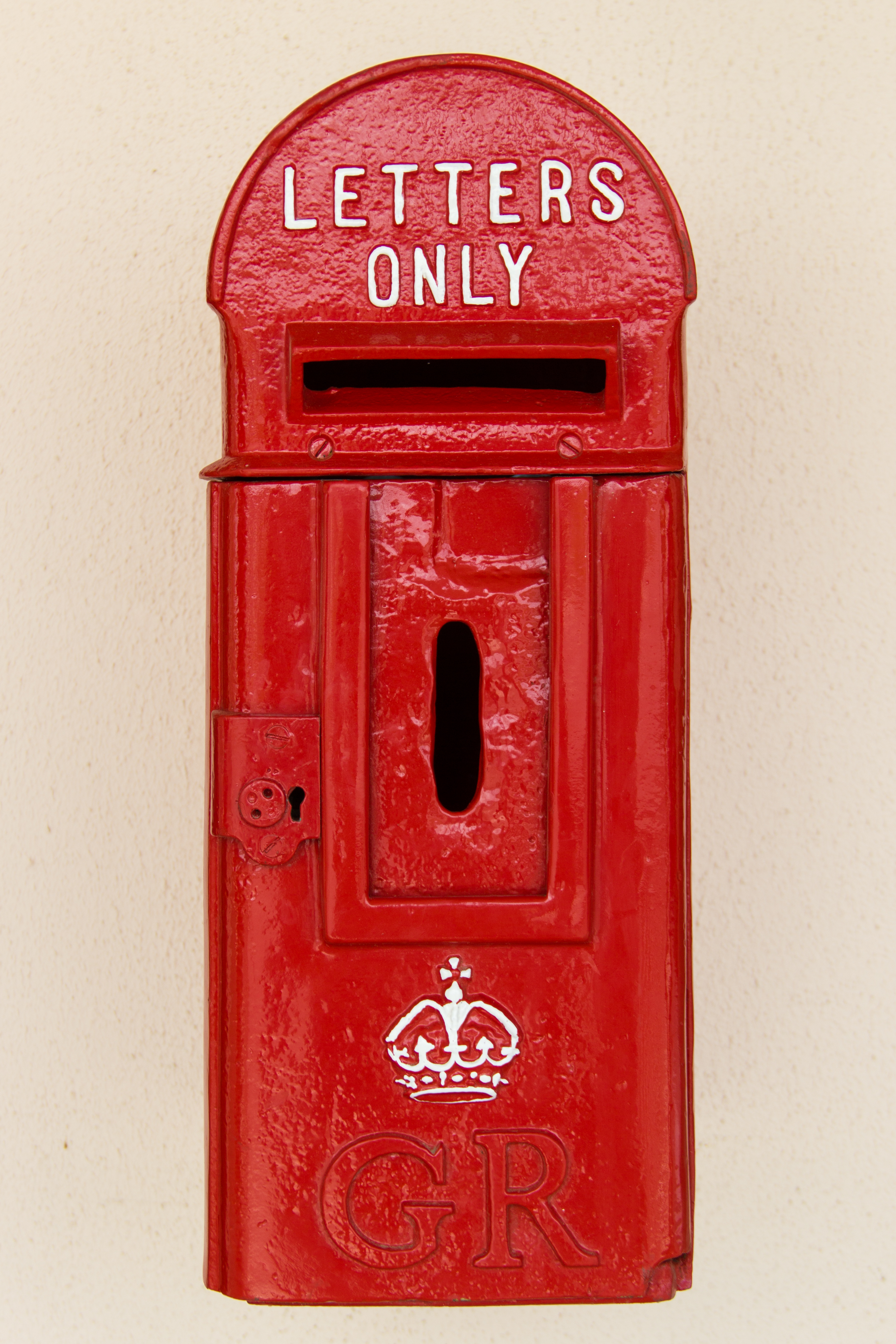 Post box (G.R. initials) at Cape Agulhas, L'Agulhas, South Africa - the most southern post box in Africa.